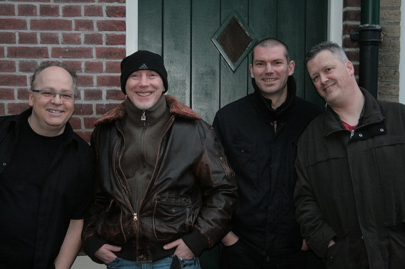 Promo pic Cliffhanger during reunion Feb 2012